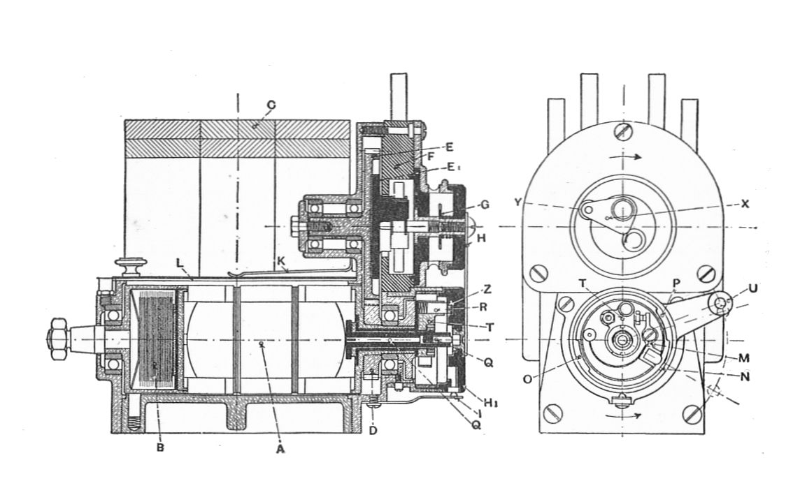 Hydra magneto, section (Rankin Kennedy, Electrical Installations, Vol II, 1909).jpg